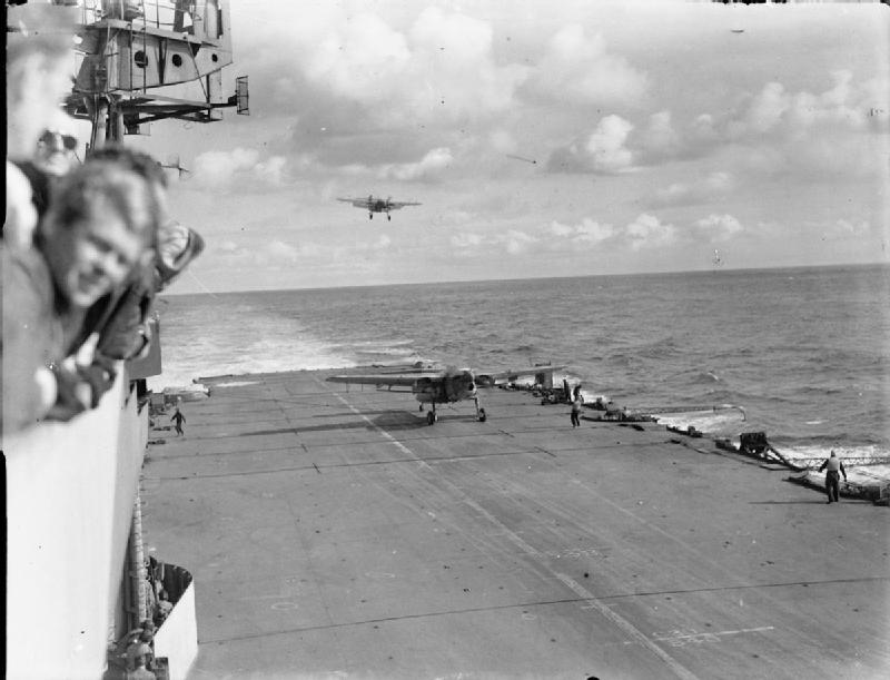 The Royal Navy during the Second World War Fairey Barracudas landing on HMS FORMIDABLE after attacking the TIRPITZ and other enemy ships off Norway. Men can be seen looking down on the flight deck in the foreground.